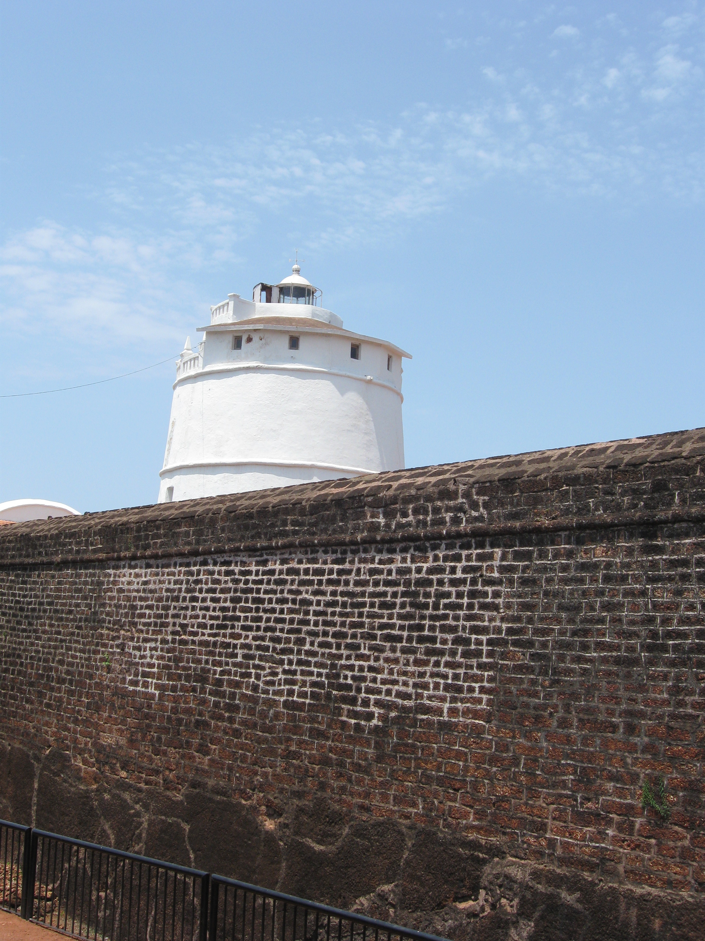 The lighthouse at Fort Aguada. When initially built in 1612, the lighthouse used to emit light once every 7 minutes, but later was updated in 1834 to emit light once every 30 seconds